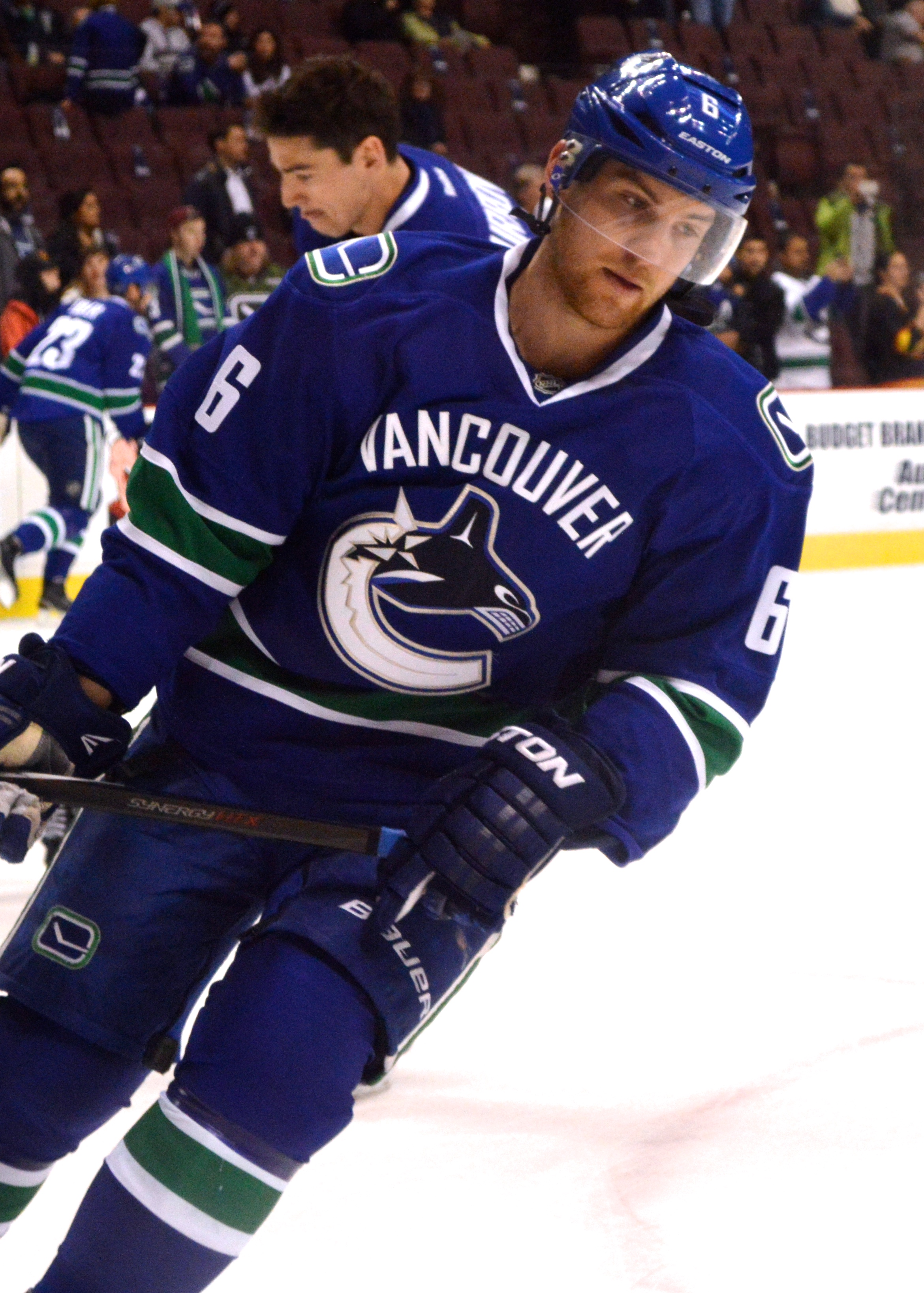 Vancouver Canucks defenceman Yannick Weber during warm-up prior to a game against the Winnipeg Jets at Rogers Arena on February 3, 2015.